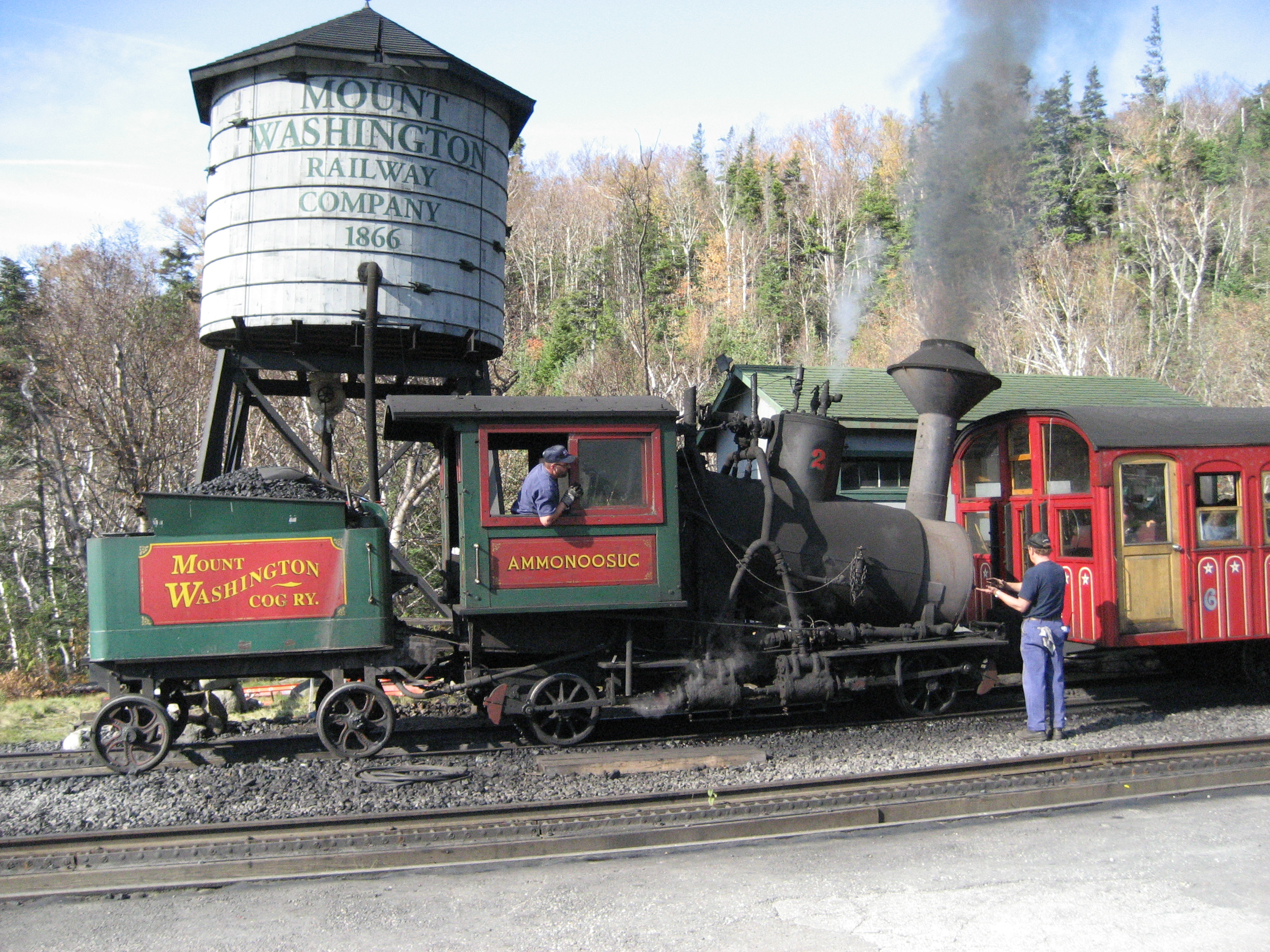 Locomotive Ammonoosuc of the Mount Washington Cog Railway Author: Gwernol Date: October 9th. 2006